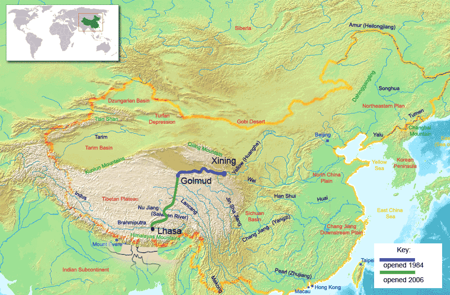 Inspired by a graphic at Wired and partly based on Image:ChinaGeography.png.Both this and the source map are simplifications of the actual route, which is far less straight.